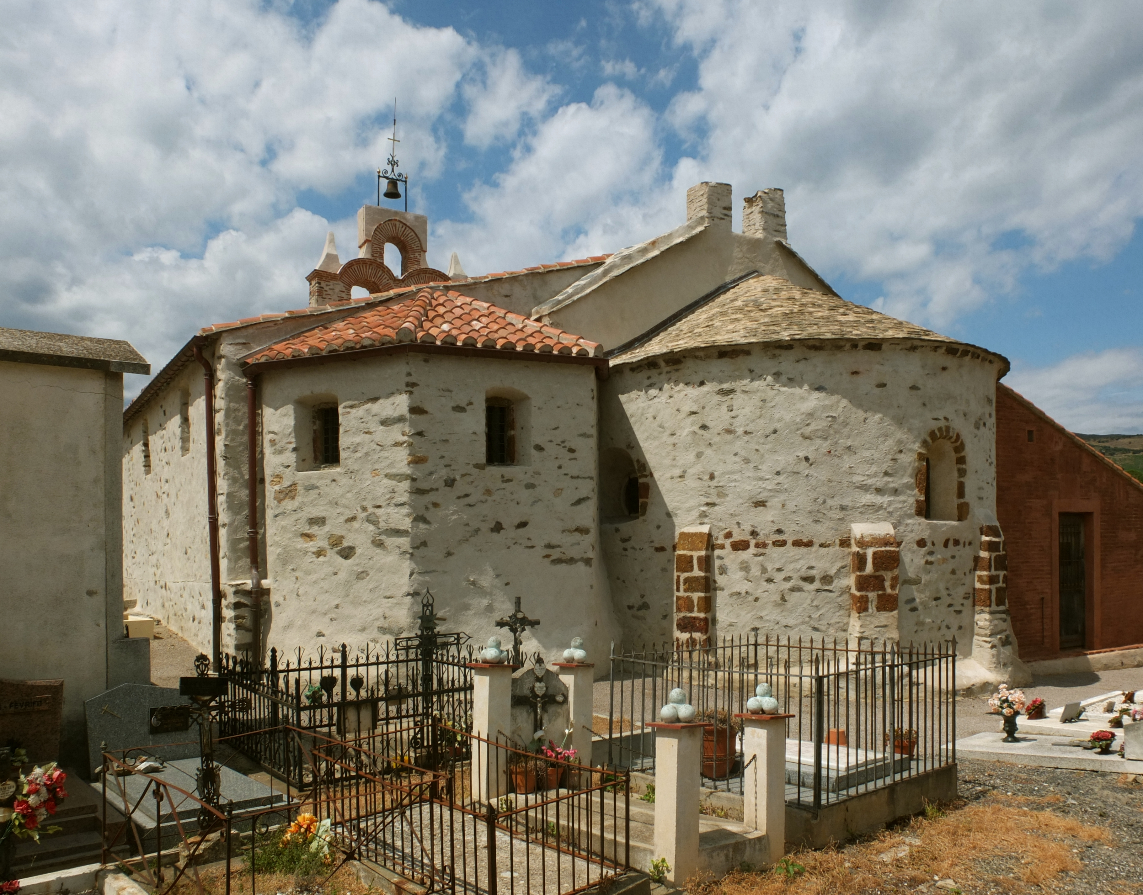 Église de la Rectorie (12th century), Banyuls-sur-Mer, France, view from W.